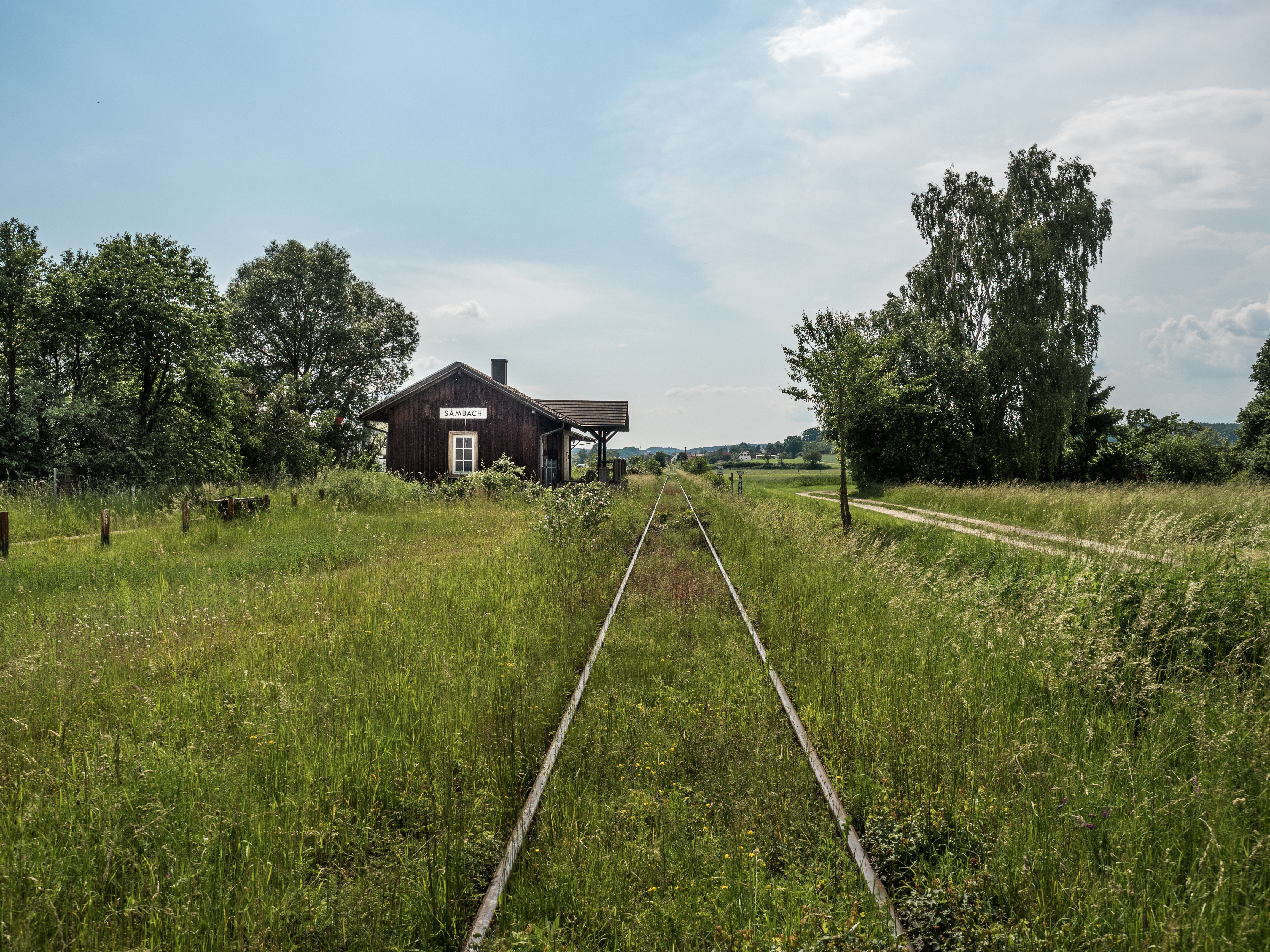 Railway track at the level crossing in Sambach